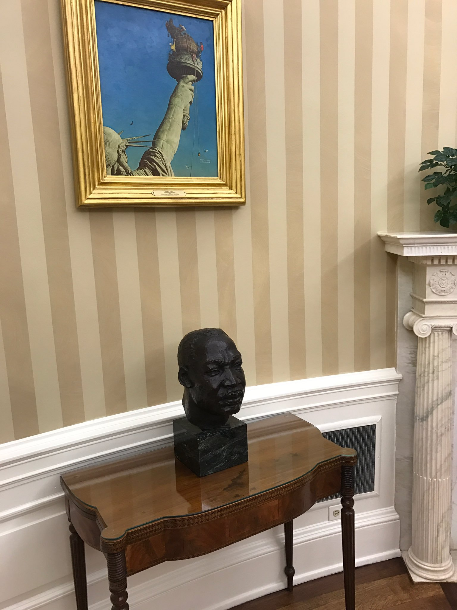 Martin Luther King bust (in Oval Office)